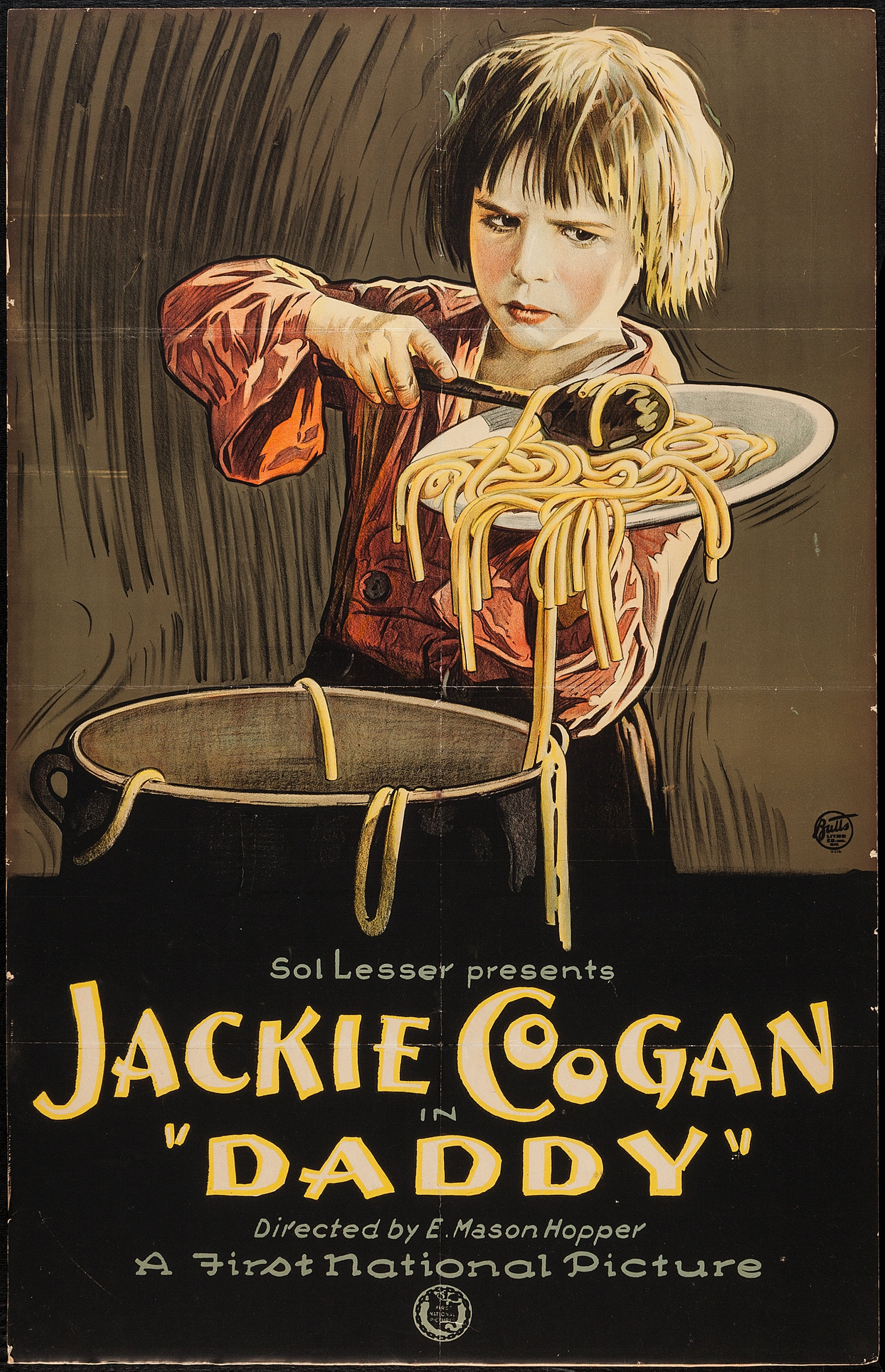 Poster for the 1923 film Daddy.